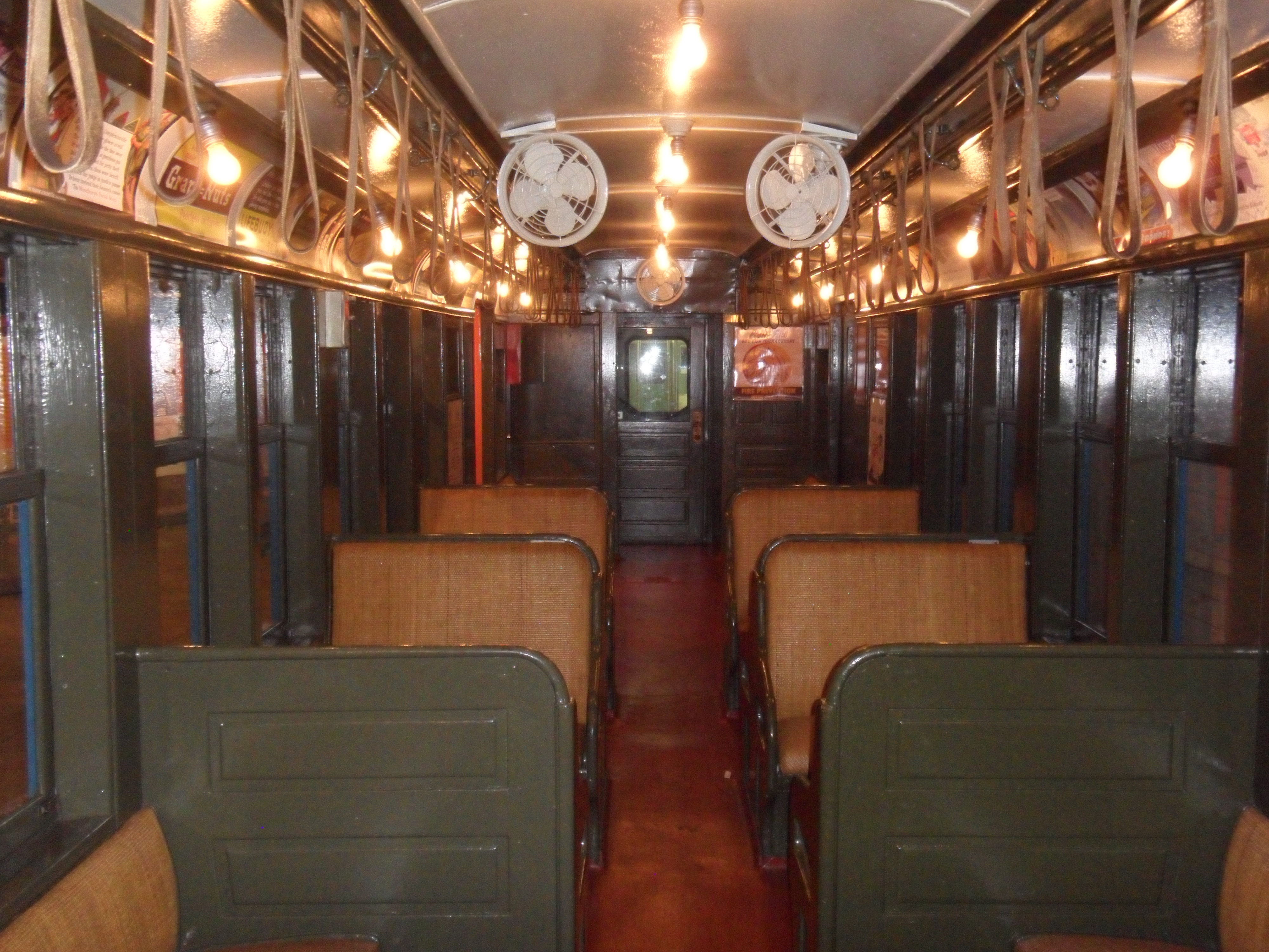 Old subway car with wicker seats and ceiling fans